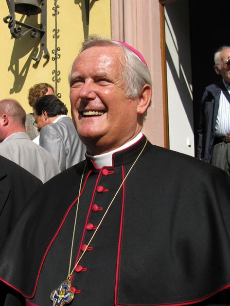 The bishop of Würzburg Friedhelm Hofmann